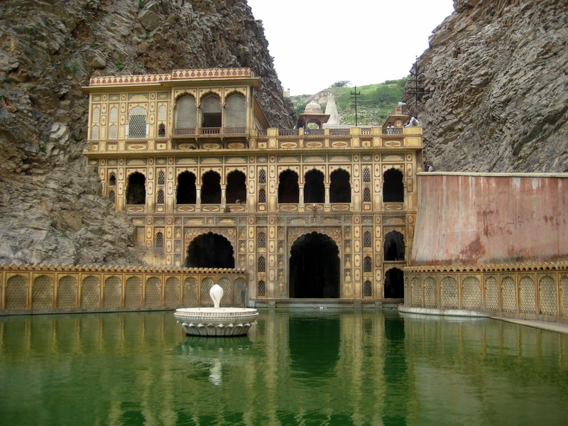 Lower pool at Galta temple, near Jaipur.